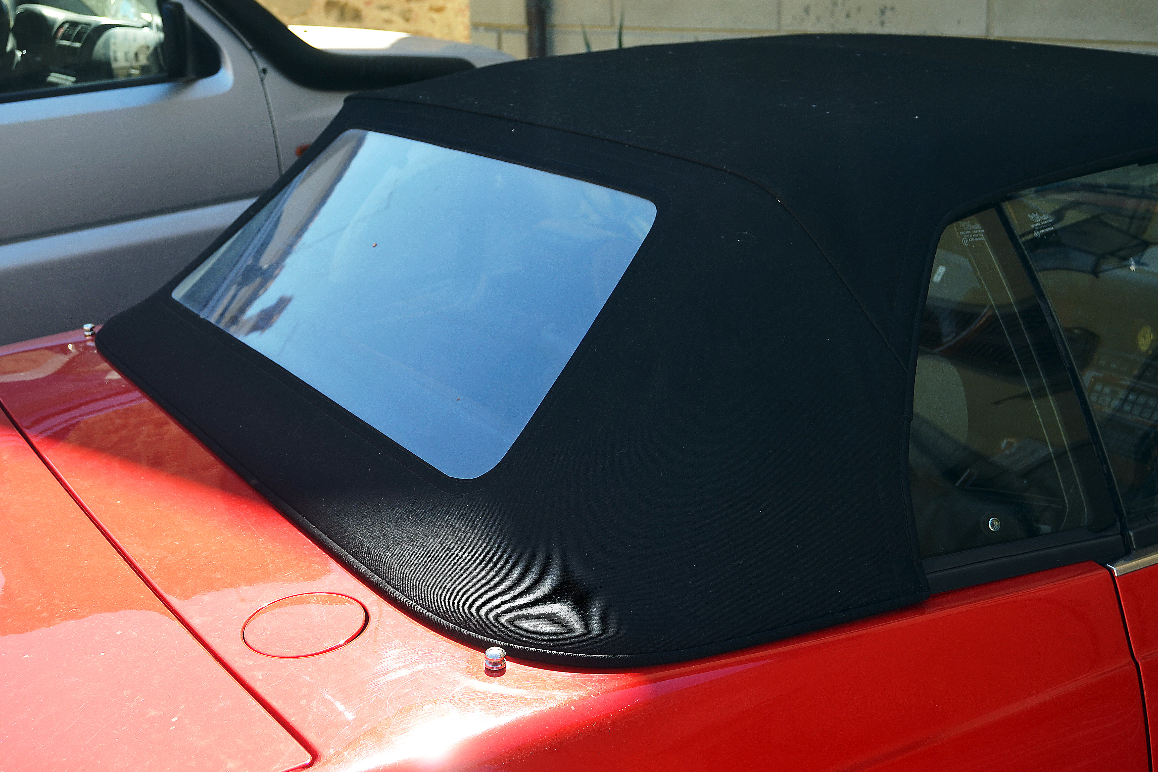 Maserati(Biturbo) Spyder: Hood